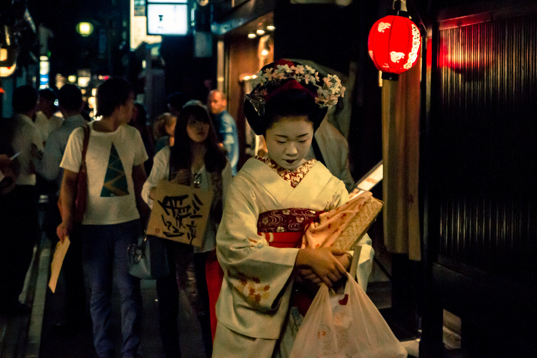 500px provided description: Kyoto [#street ,#kyoto ,#geisha]